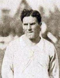 Héctor Scarone with the Uruguay national football team during the South American Championship 1926